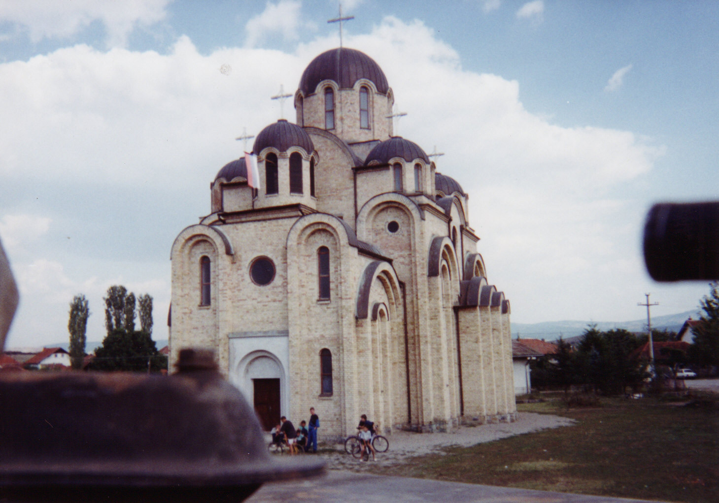 A prominent Serbian Orthodox church located in the town of Klokot, Kosovo. This church was guarded by KFOR soldiers 24/7